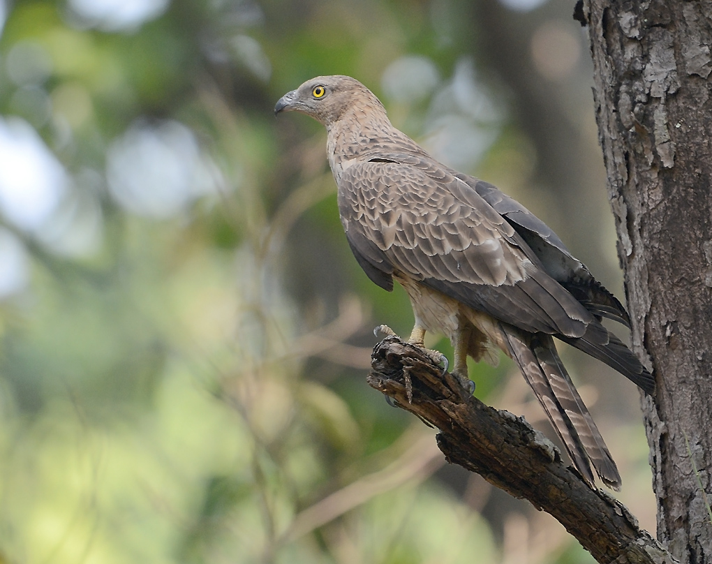 A Crested Honey Buzzard at Jim Corbett National Park, Uttarakhand, India.